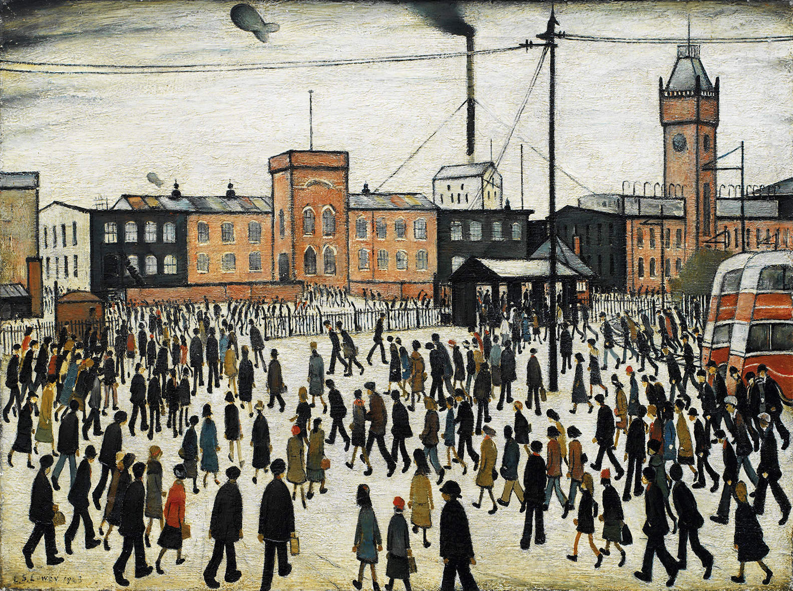 Factory workers going to work at the Mather & Platt, Manchester, in the snow. l on canvass, 457 x 609 mm